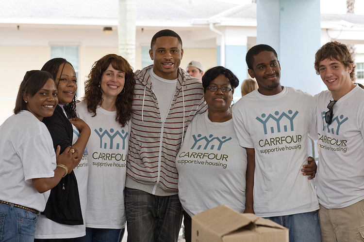 Oakland Raider Nnamdi Asomugha, center, with Stephanie Berman-Eisenberg, third from left, and volunteers during Clinton Global Initiative Day of Service at Carrfour’s future Verde Gardens community.